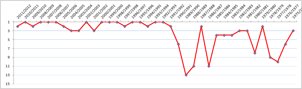 Graph of Manchester United's league position history since 1975. Data taken from